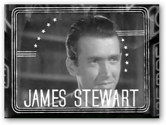 Cropped screenshot of the film The Philadelphia Story